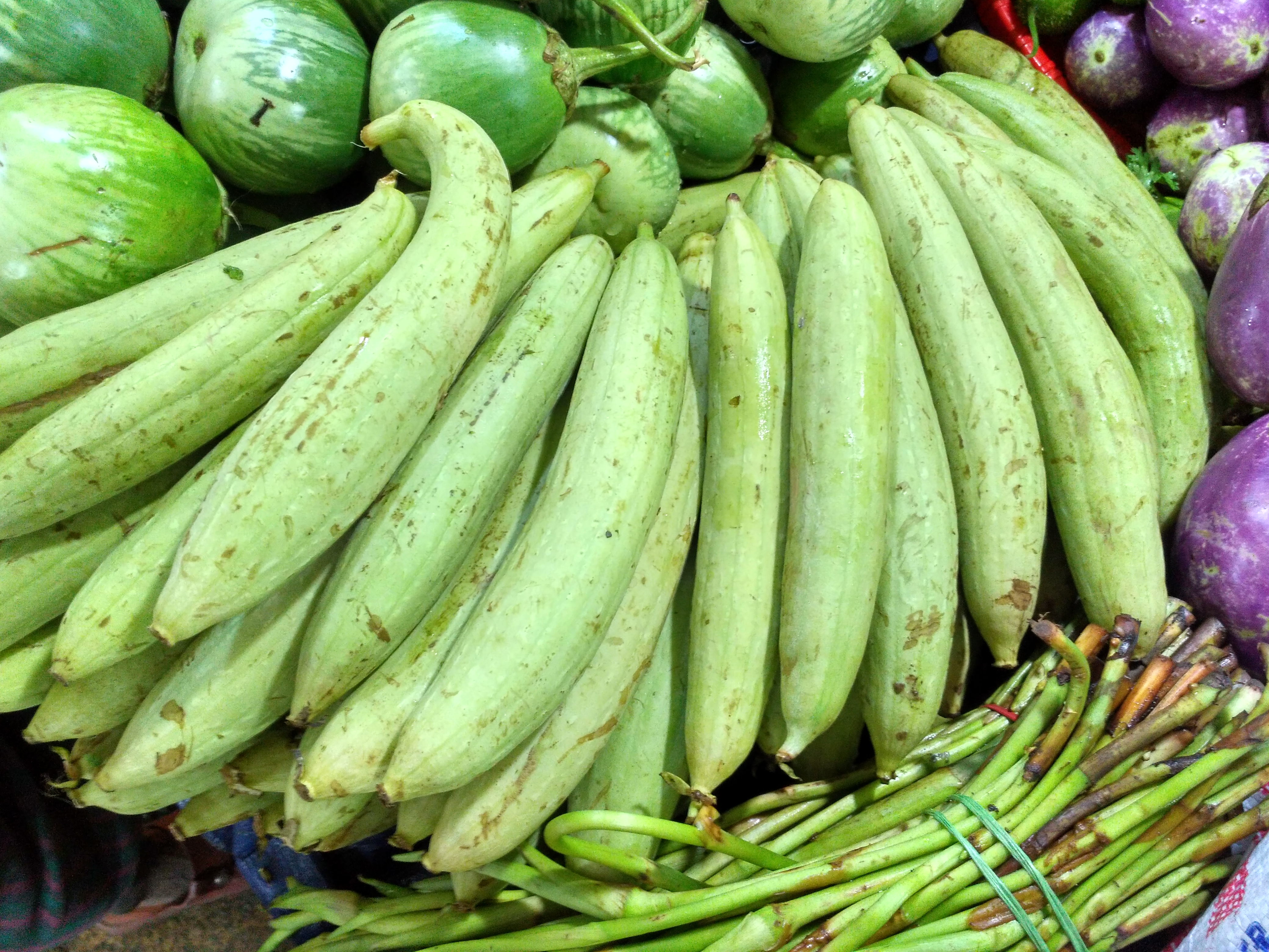 View of sponge gourd at a grocery market in Dhaka for sale. Moghbazar Charulata Market Kancha Bazar, Dhaka, Bangladesh. (28.09.2018.)